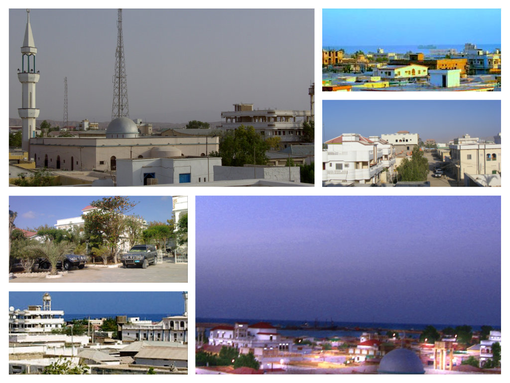 Montage of places in Bosaso, Somalia.